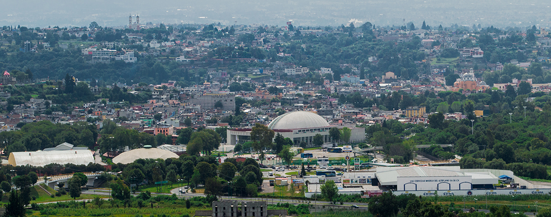 Centro histórico de Tlaxcala